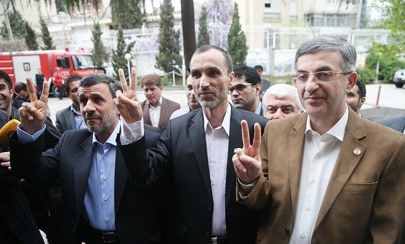 Registration from candidates of Iranian 2017 presidential election